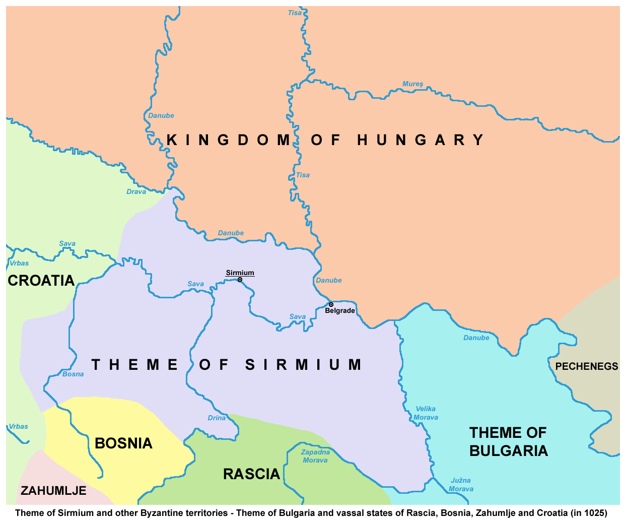 Theme of Sirmium and other Byzantine territories - Theme of Bulgaria and vassal states of Rascia, Bosnia, Zahumlje and Croatia (in 1025).